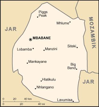 Map of Eswatini in Croatic language